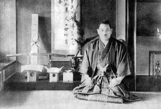 A Japanese judoka, Tamio Kurihara, who won at the Ten-Ran Shiai in 1929.